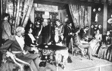 Svenska Panoptikon, the scene with the royal family, 1889, photographer unknown